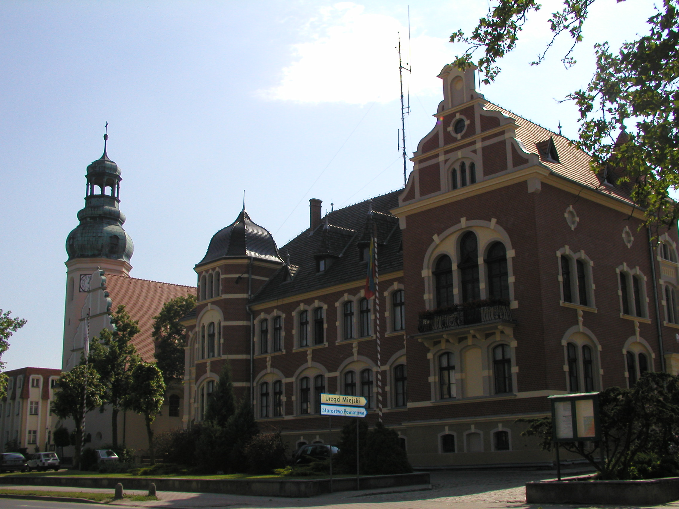 County town and the Holy Spirit Church. Gostyń (Polska) Data: 16 VI 2005 Autor: Barbara Wrzesińska